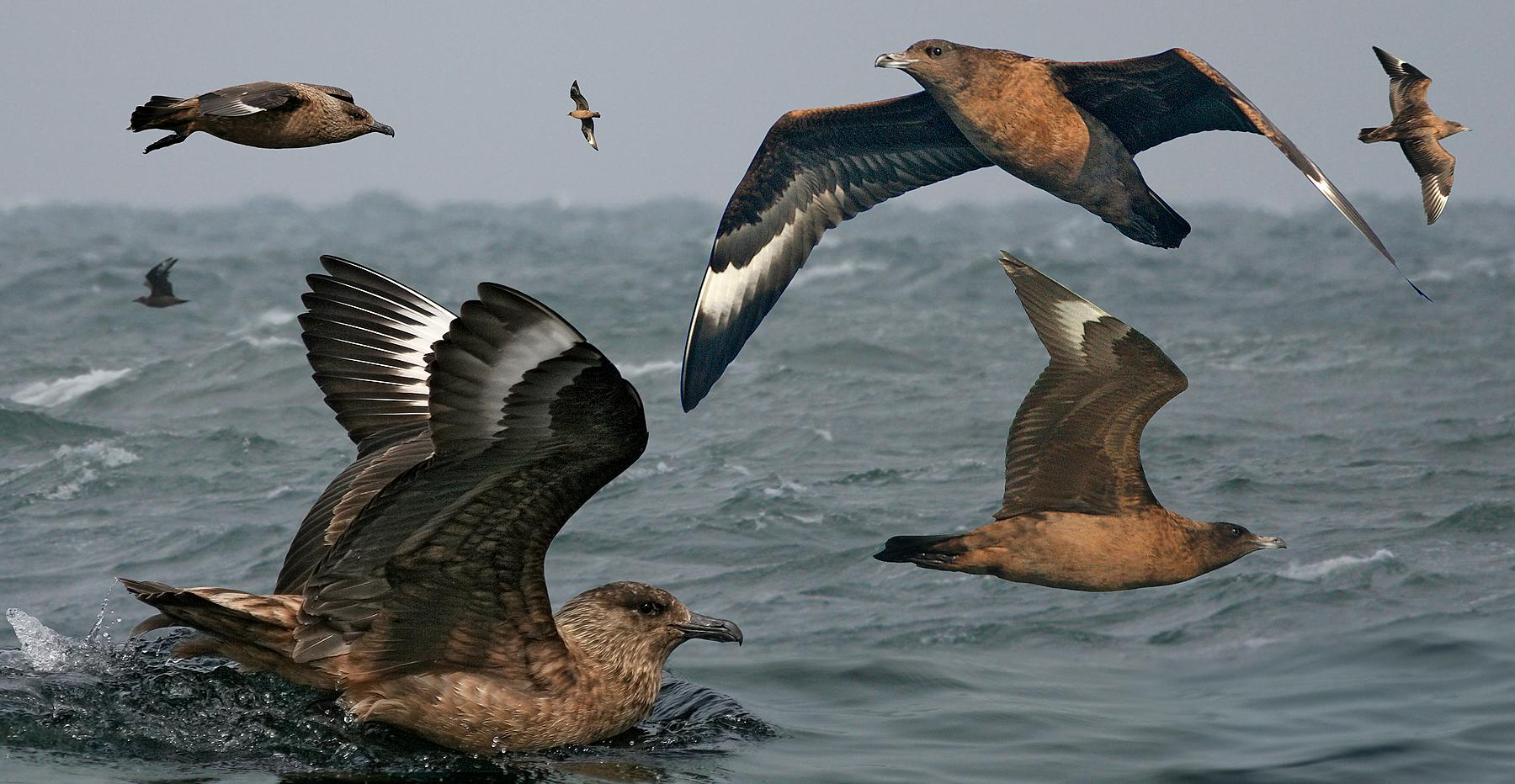 Great Skuas From The Crossley ID Guide Eastern Birds